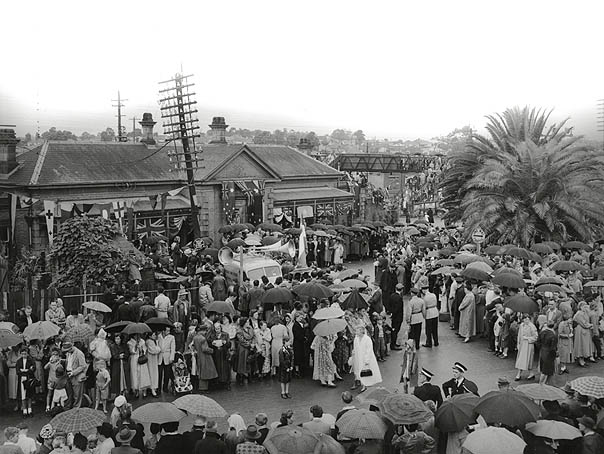 Blacktown Railway Station Dated: 27/02/1955 Digital ID: 17420_a014_a0140001196r Rights: We'd love to hear from you if you use our photos. Many other photos in our collection are available to view and browse on our website using Photo Investigator.